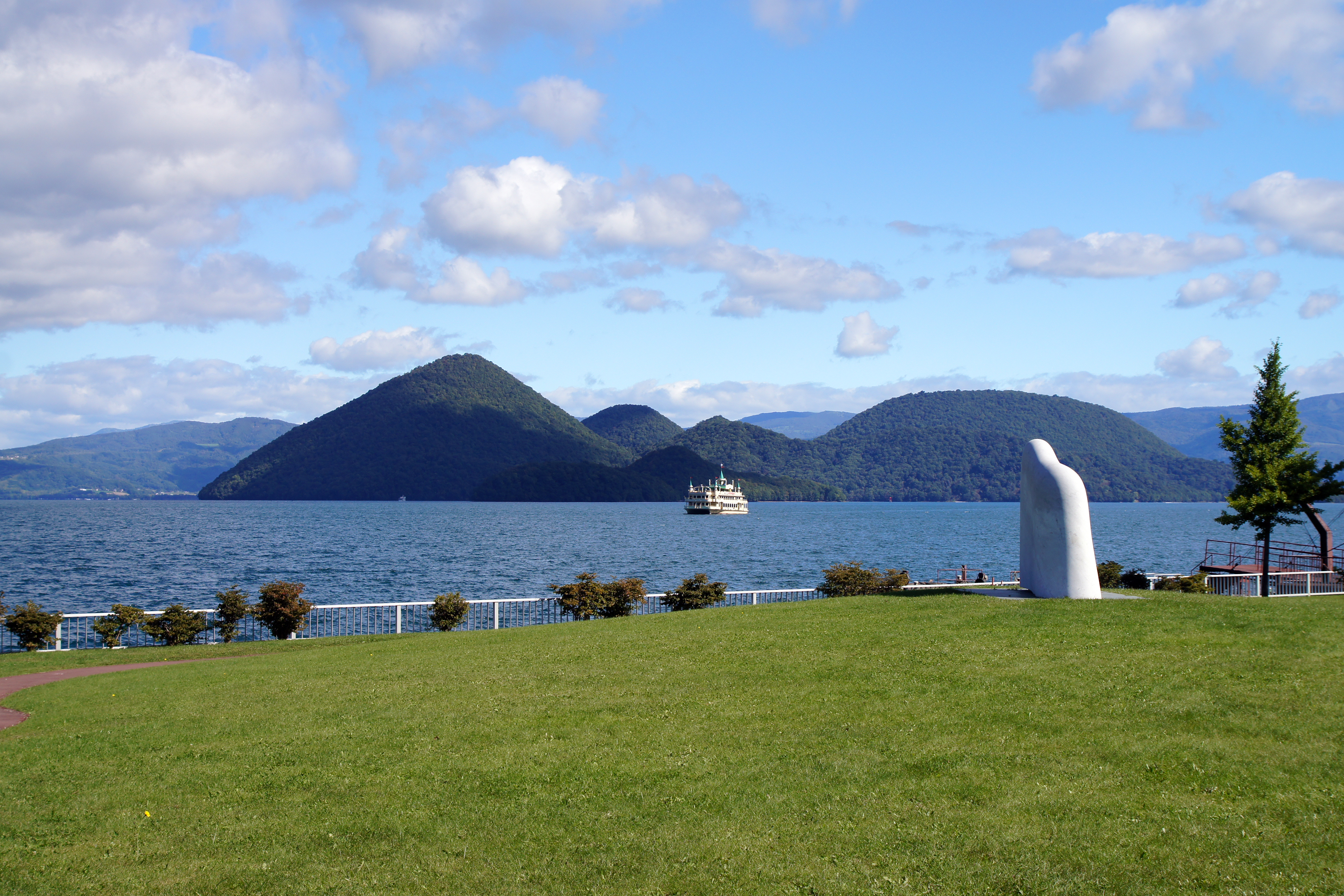 On the lakeside in Lake Tōya, Toyako, Hokkaido prefecture, Japan.